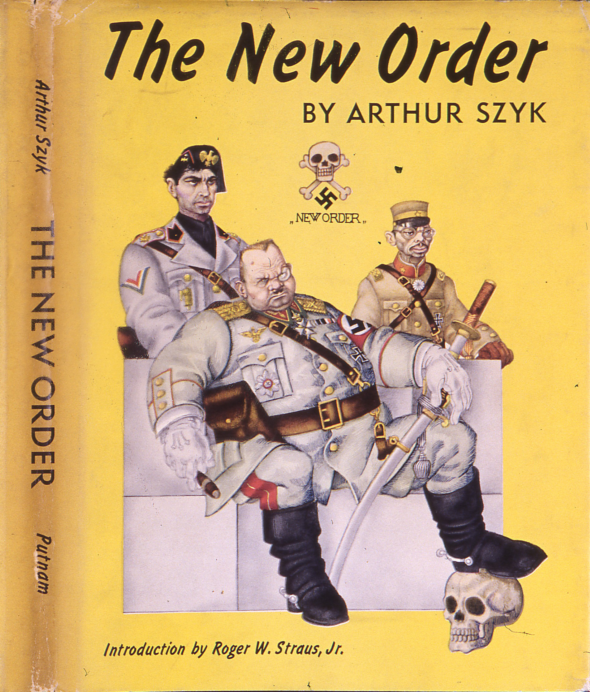 Cover of Szyk's Book, "The New Order", which contains selections of cartoons and caricatures originally published in the New York newspaper, PM. The book was published in July 1941, five months before the United States entered War War II, and many of the cartoons reflect Szyk's optimism that it would end soon. The title page for this book bears the caricatures of Hermann Goering (center), Italian dictator Benito Mussolini (left), and Hideki Tojo, Prime Minister of Japan (right) that appeared in the pages of PM on Sunday, January 19, 1941.